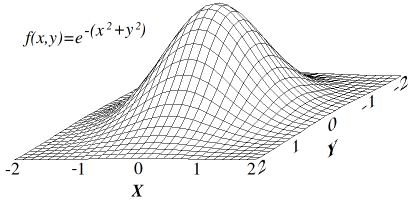 Hill climb